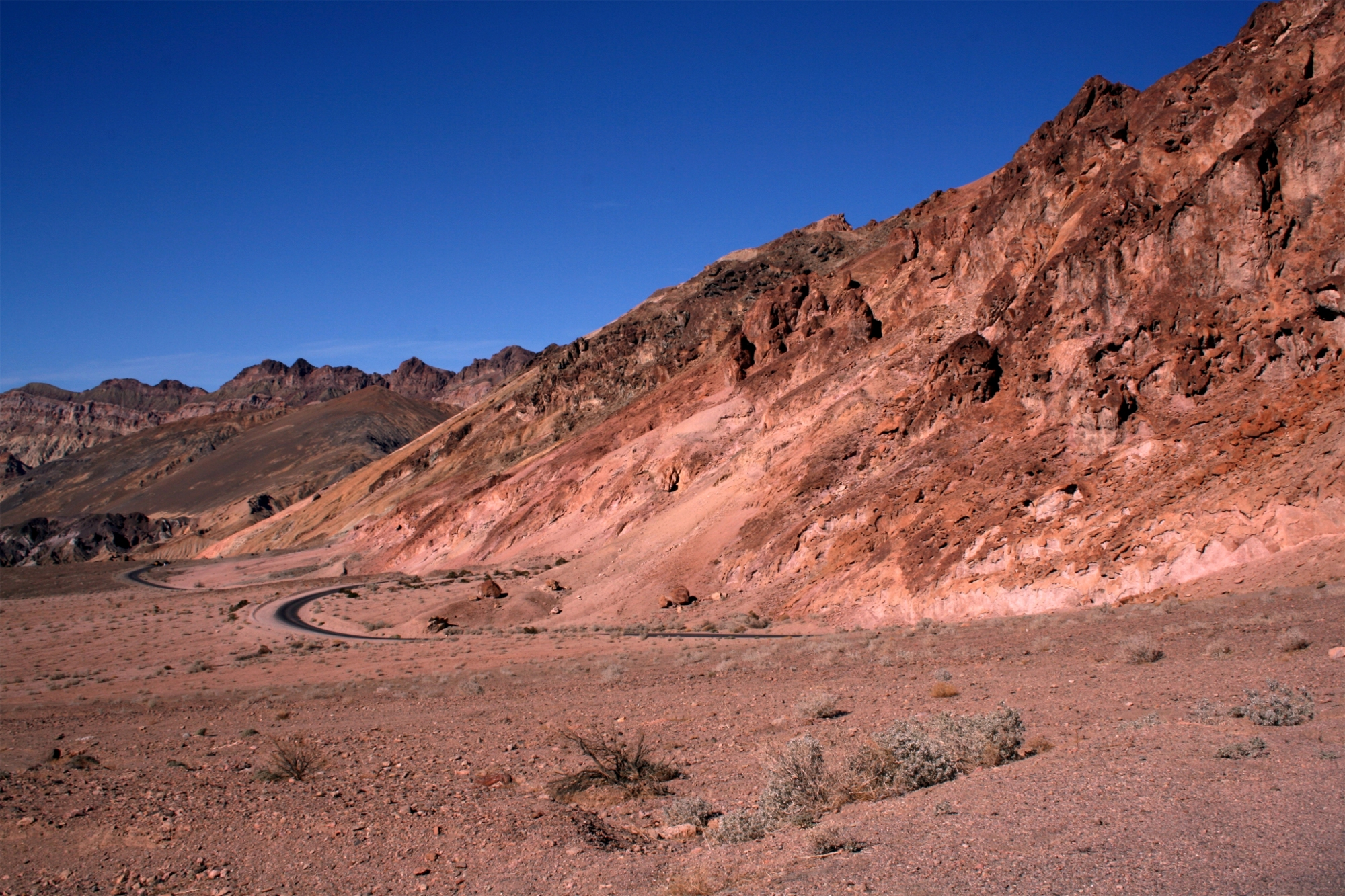 Artist's Drive in Death Valley National Park